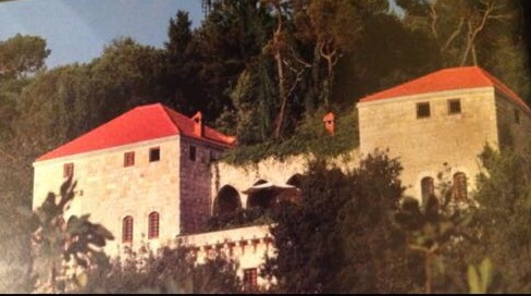 Palace of Shaykh Merii al-Dahdah, Kfour, Lebanon